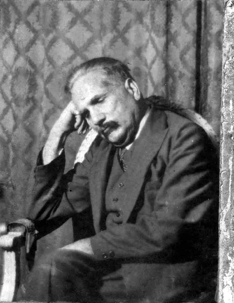 Depicted person: Muhammad Iqbal – Urdu poet and leader of the Pakistan Movement